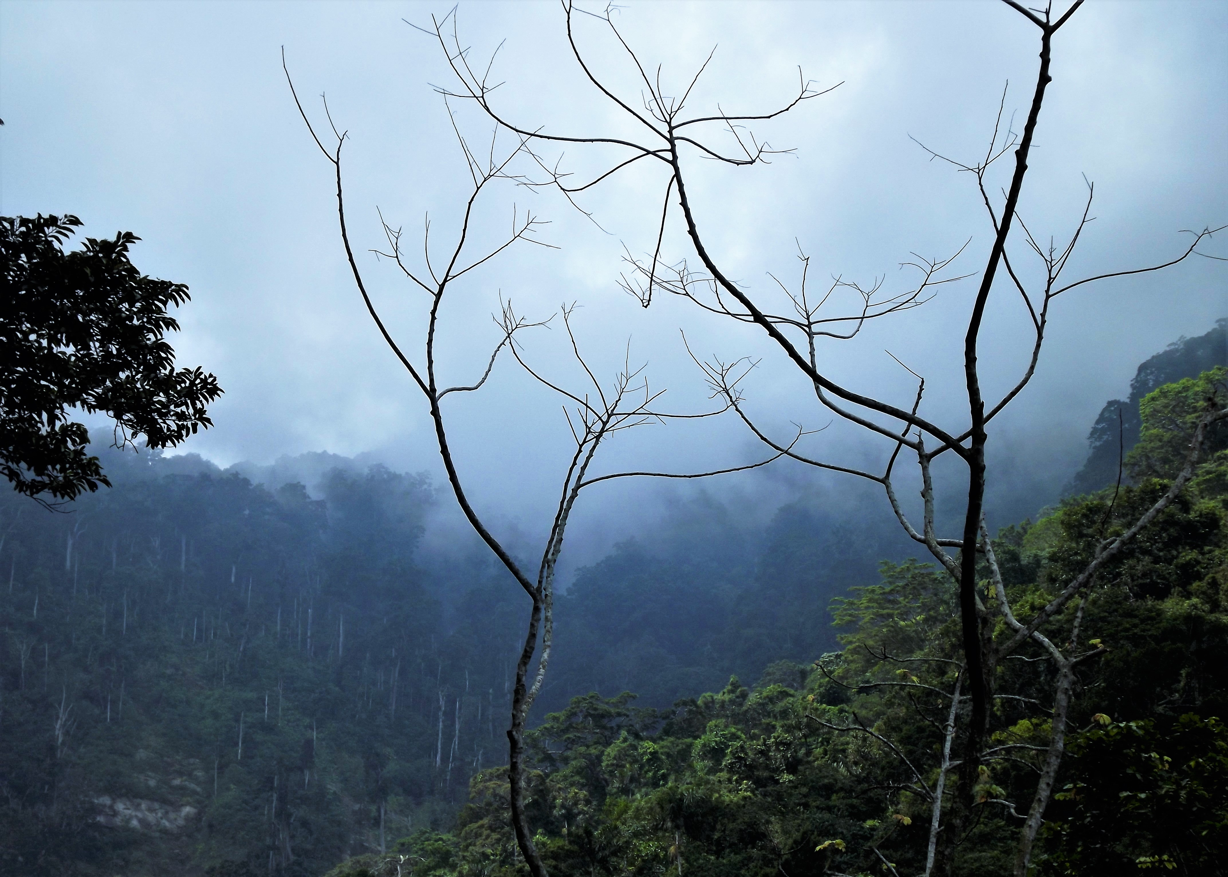 Humid Tropical Forest, Henri Pittier National Park